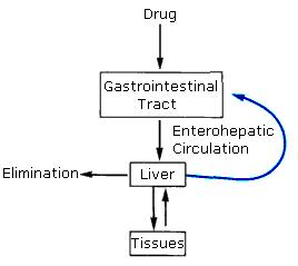 Im the author. I made it just now on MS Paint.